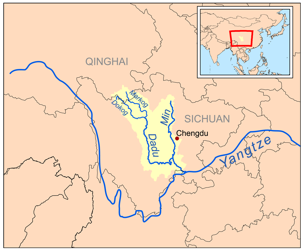 A map of the Min River (Minjiang) and Dadu River drainage basin. Tributaries of the Yangtze River (Chang Jiang).